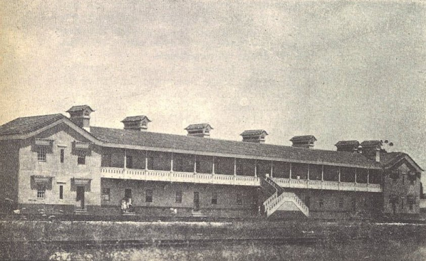 Workers dormitory at the Reguengos de Monsaraz Railway Station, in Portugal. This photograph was originally published in the Gazeta dos Caminhos de Ferro No. 1104, of the 16th December 1933, and scanned by the Hemeroteca Municipal de Lisboa.